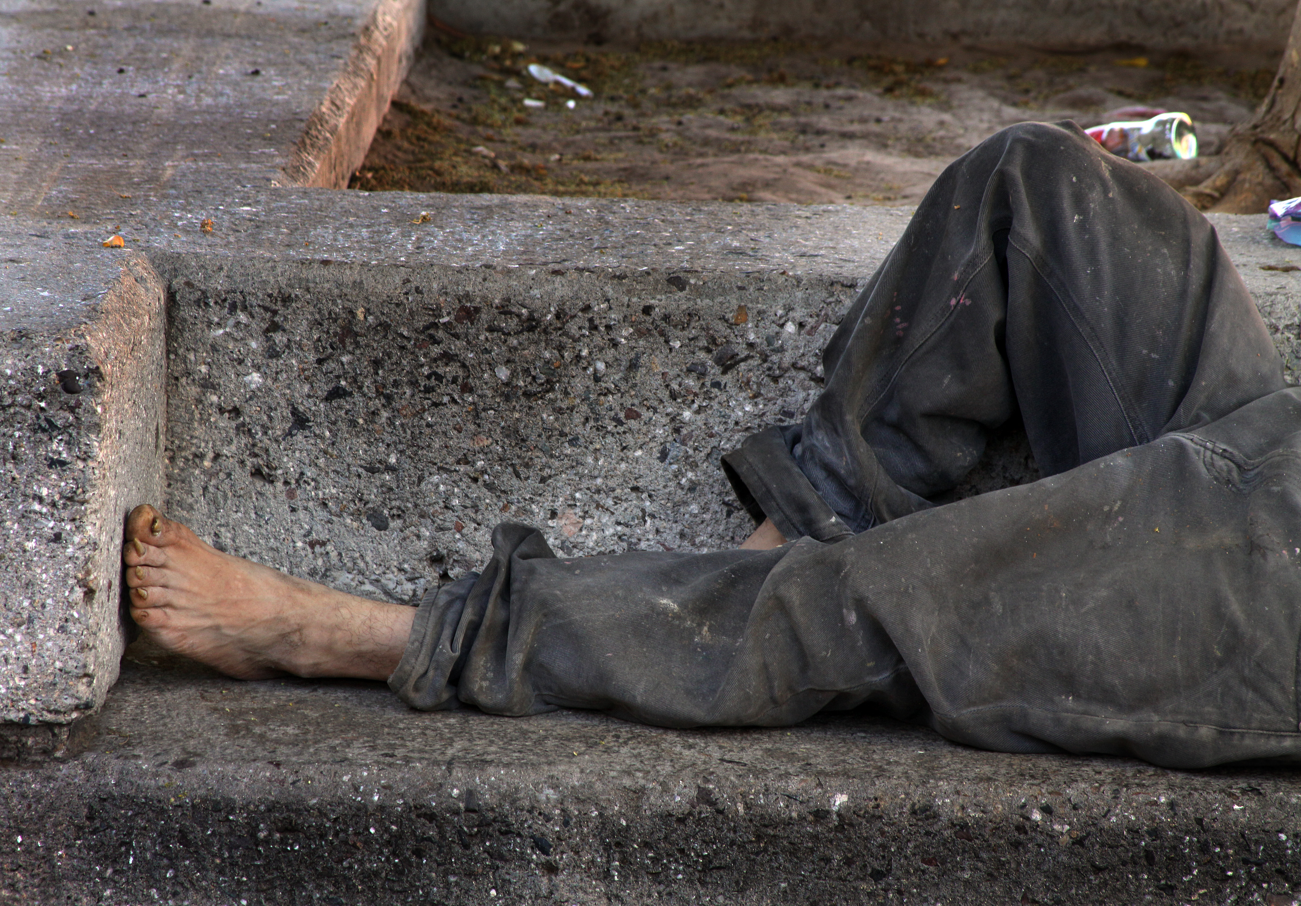 Homeless on bench, Hermosillo, Sonora, Mexico